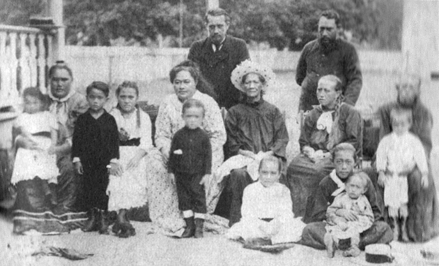 The royal family of Huahine, circa 1890. It is possible to identify the following adults, from left to right: the first woman [holding a child] would be Tetuamarama Teuruarii, spouse of Marama Teuruarii; the second woman [in front of whom a boy is standing] would be Tetuanuimarama, spouse of Ariimate Teururai; next to her, their mother-in-law, Queen Teha'apapa II; in the back row, to the left, Ariimate Teururai [Tamatoa VI], and, to his right [bearded], Marama Teururai.